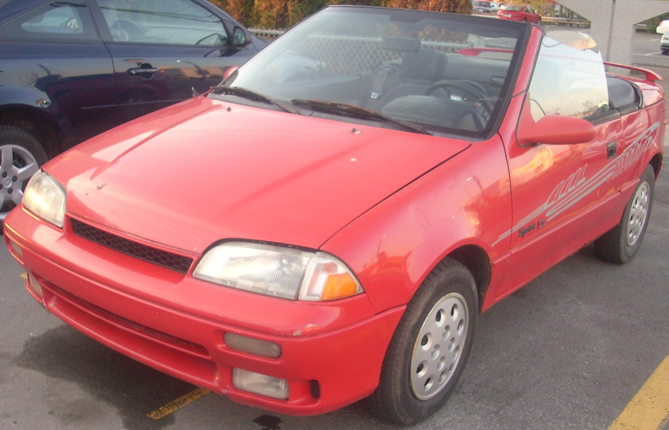 1990-1991 Chevrolet Sprint photographed in Montreal, Quebec, Canada.